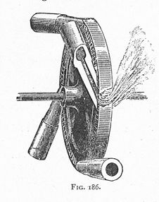 Fig. 186 General view of a De Laval wheel with four nozzles.